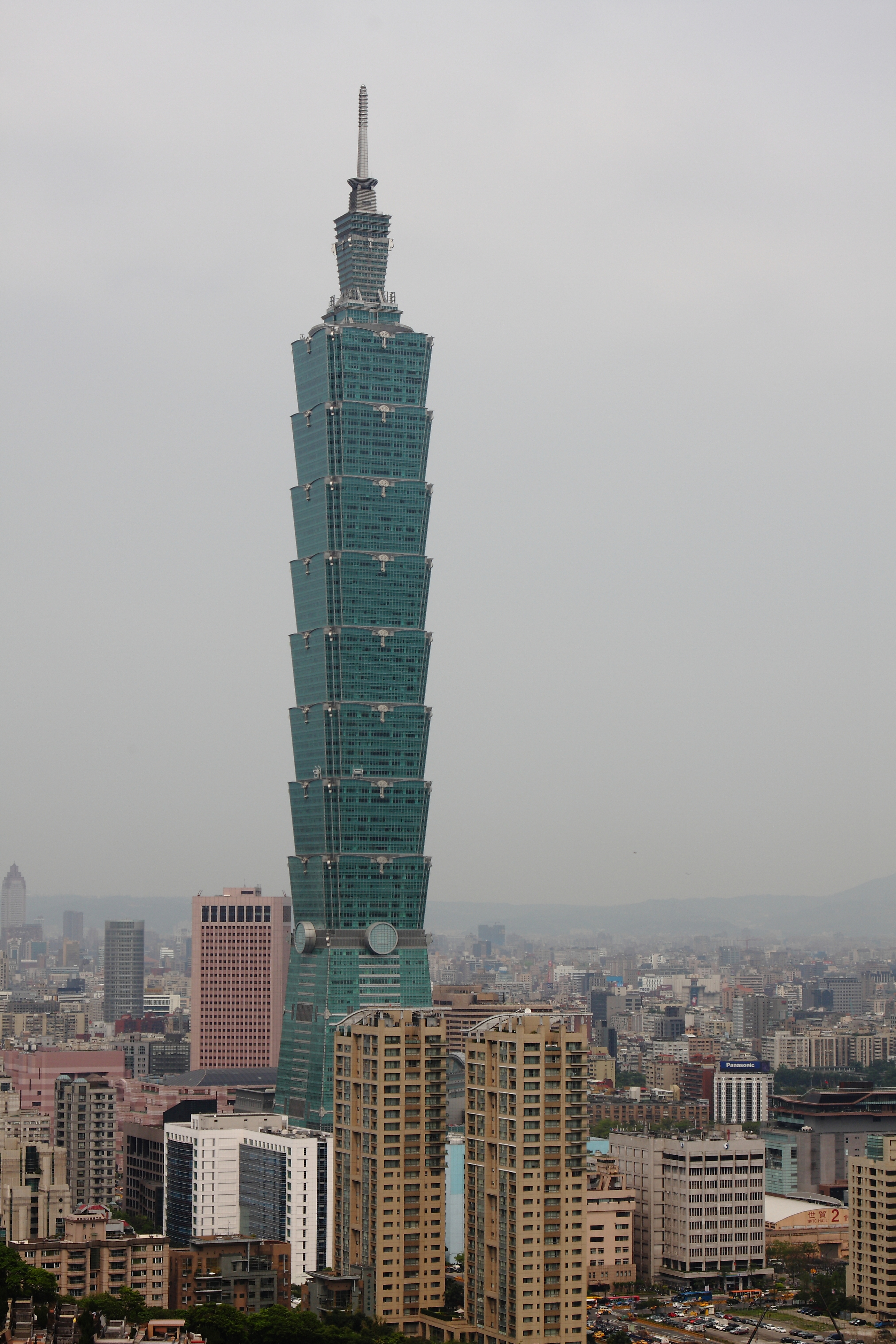 Taipei 101